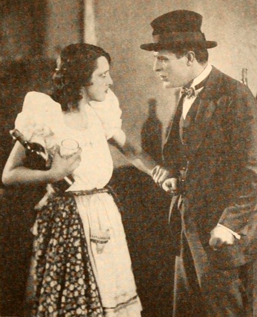 Film still from the American silent film The Whip Woman, published in Exhibitor's Herald with the following caption : "The brutal side of Michael, suddenly disclosed, comes as a bitter surprise to Olna. Estelle Taylor and Antonio Moreno in a scene from their Fist National picture, The Whip Woman."